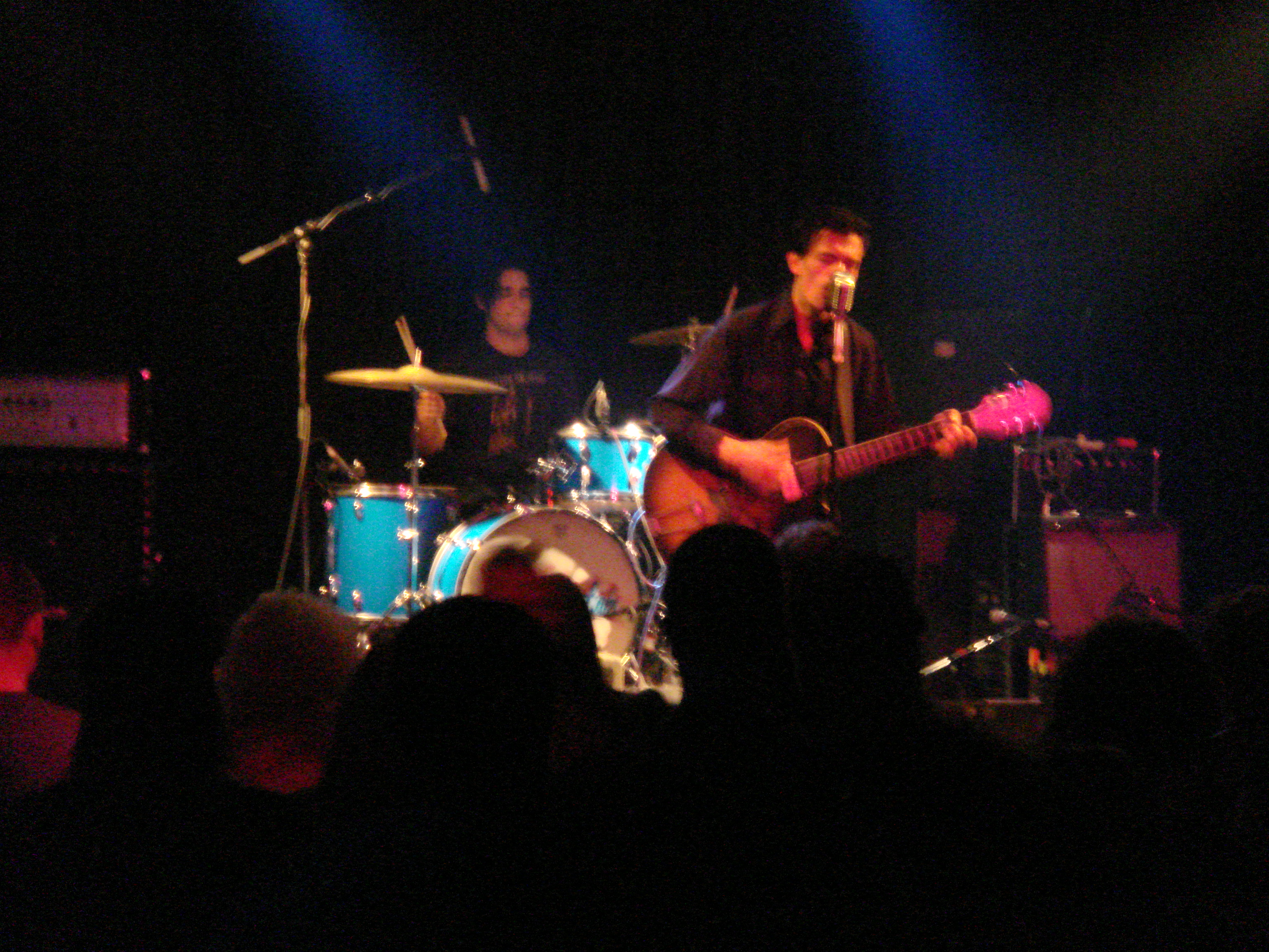 Dan Sartain live in Chicago, 2007.